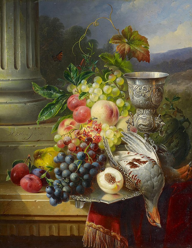 Hunting Still Life with Fruit and Silver Goblet